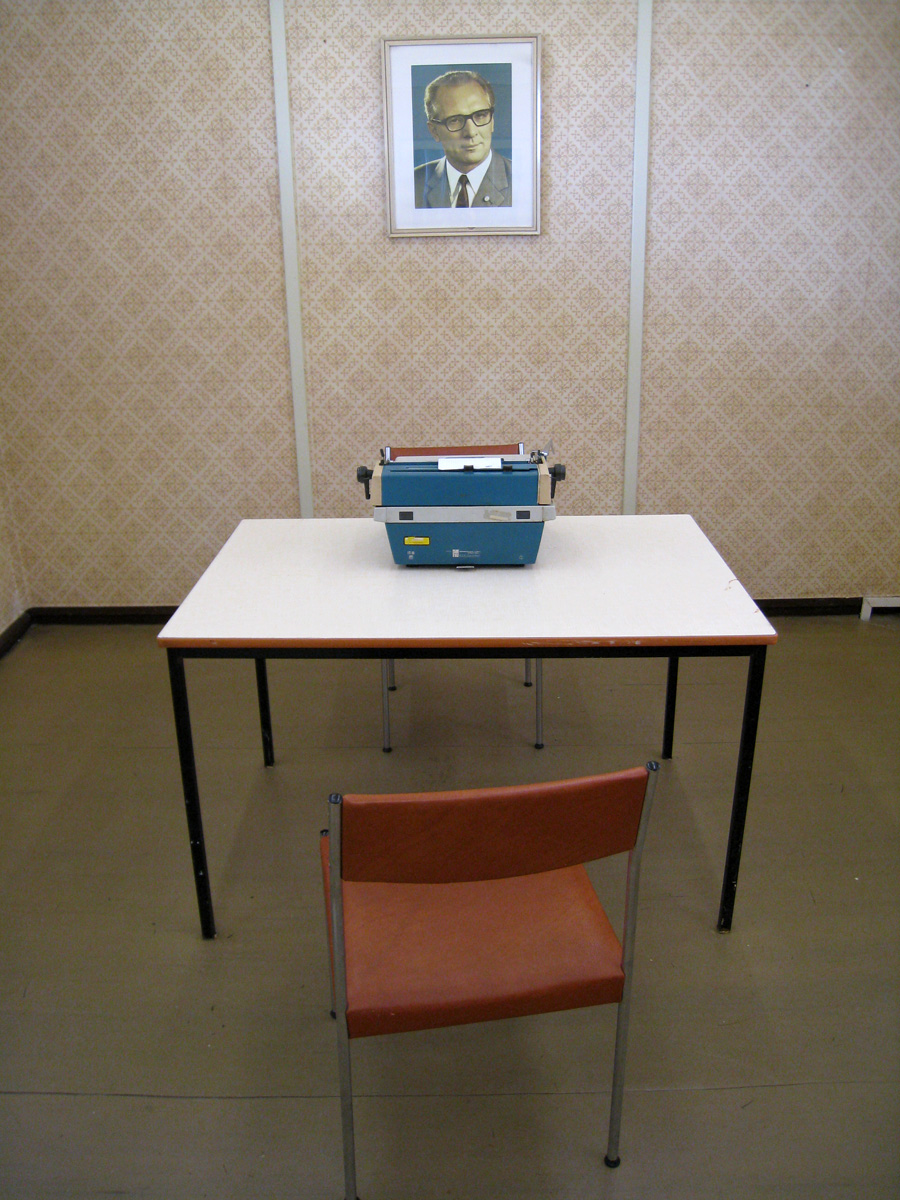 Interview room at the former East German border crossing point at Marienborn. Photo: Erich Honecker.